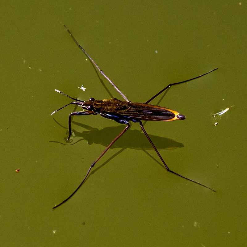 Gerridae, family of insects in the order Hemiptera, commonly known as water striders, water skeeters, water scooters, water bugs, pond skaters, water skippers, Jesus bugs, or water skimmers.